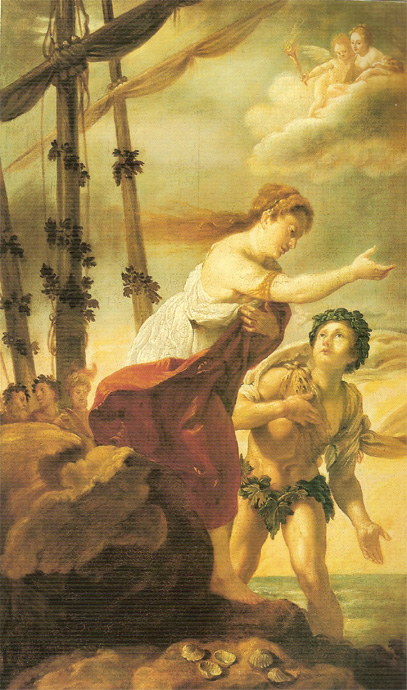 Arianna e Bacco nell'isola di Nasso (Ariadne and Bacchus on the Island of Naxos) painted by Domenico Fetti in 1611.